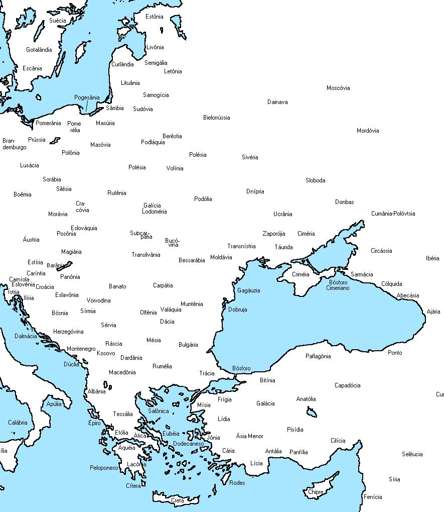 Map of Eastern Europe with the names of historical and/or subnational regions (often overlapping) in Portuguese.